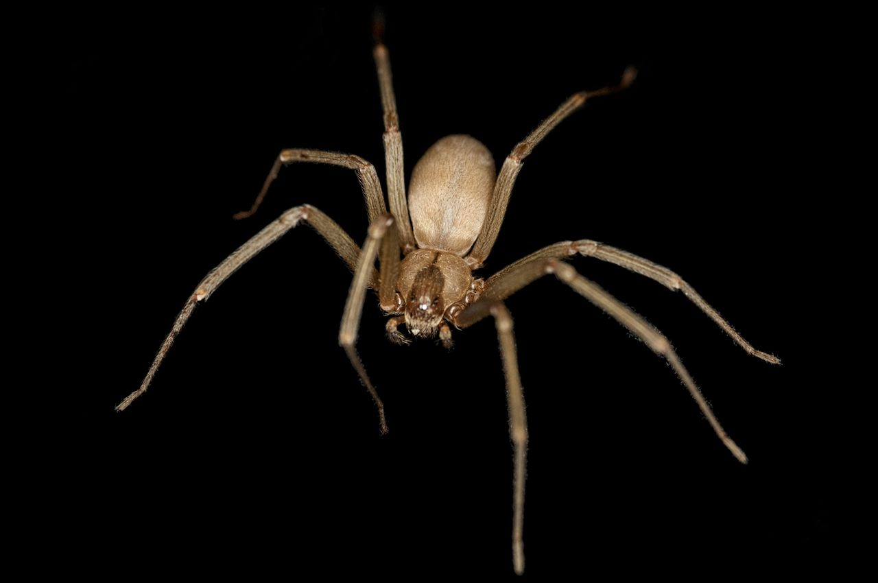 This brown recluse or violin spider (Loxosceles reclusa) is a species of spider native to North America.